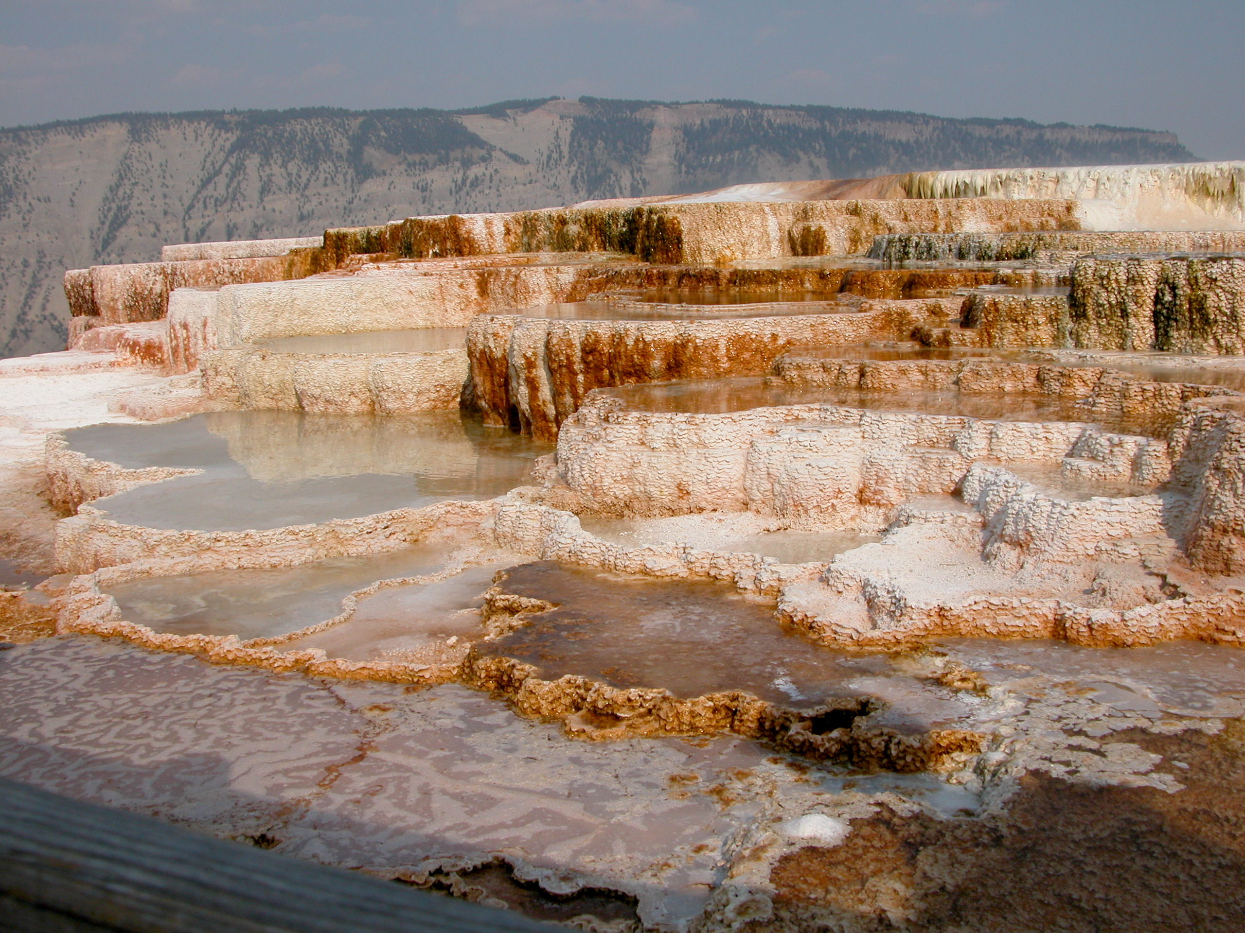 Main terrace of Mammoth Hot Springs in Yellowstone National Park.